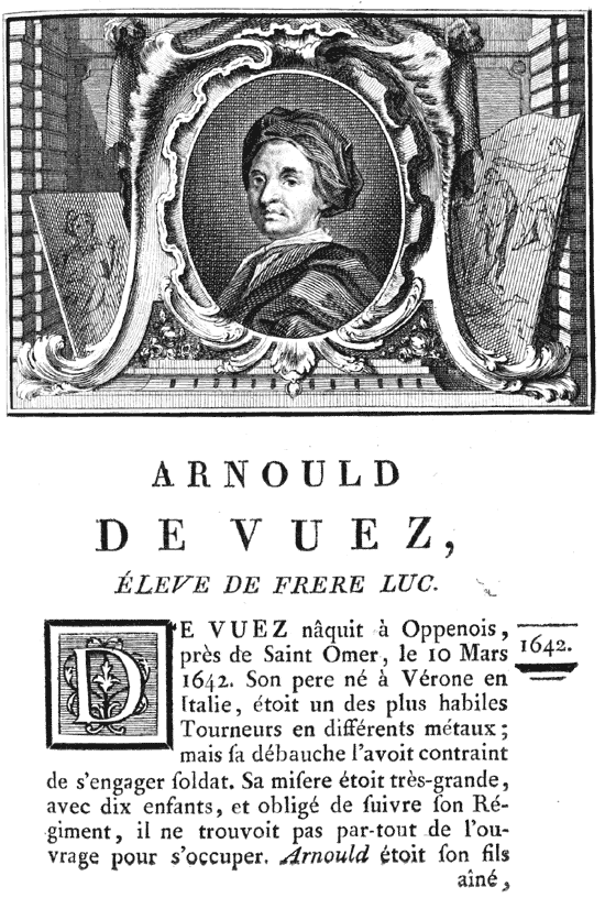 Book 3 of 4-volume painter biographies by Jean-Baptiste Descamps